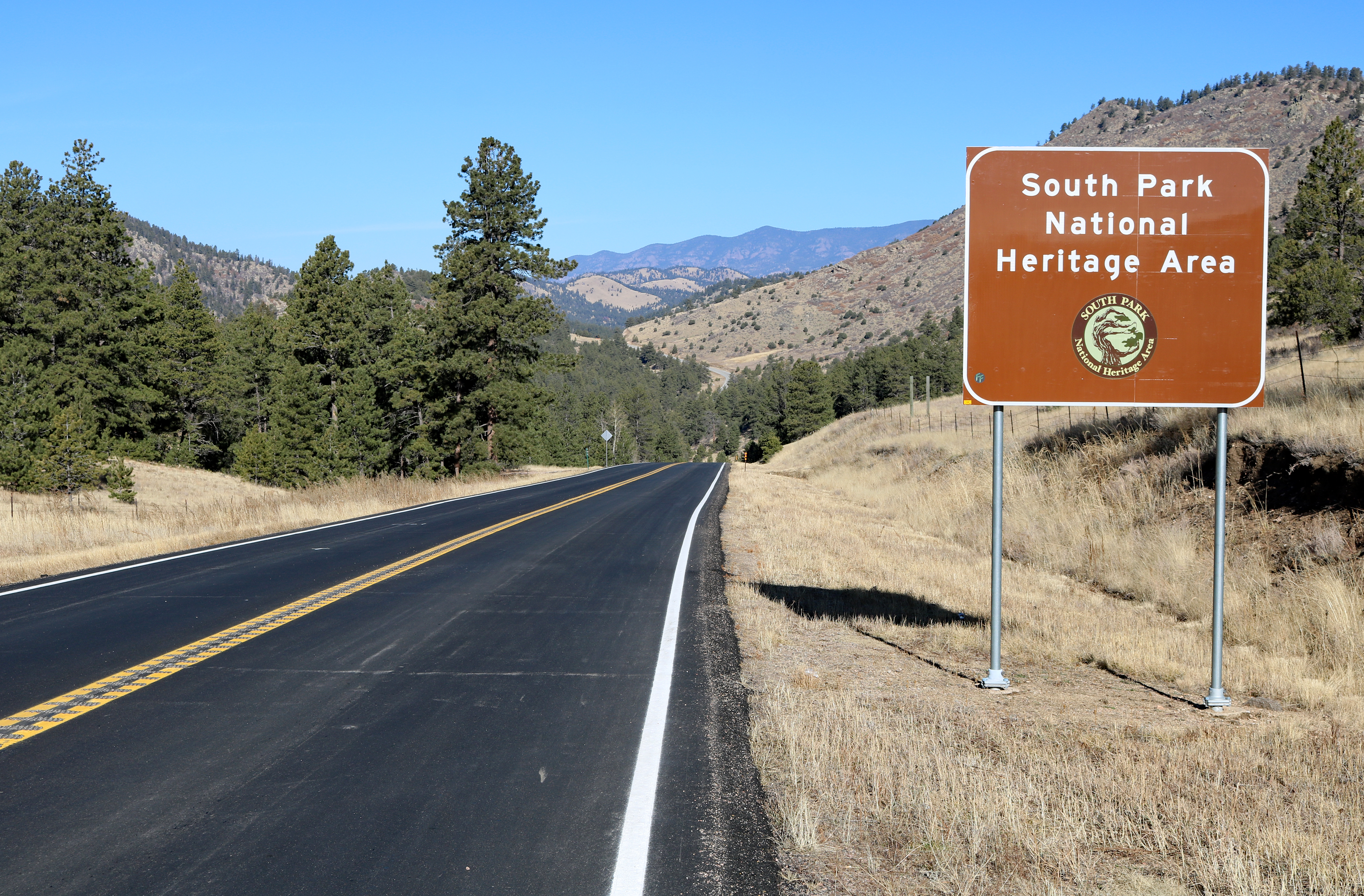 A sign marking the South Park National Heritage Area, on the border between Park and Fremont counties in central Colorado. The road is Colorado State Highway 9. The view is about to the north.